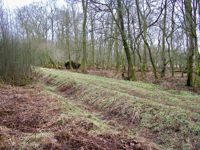 Scots' Dike A view of part of the western section of Scots' Dike.